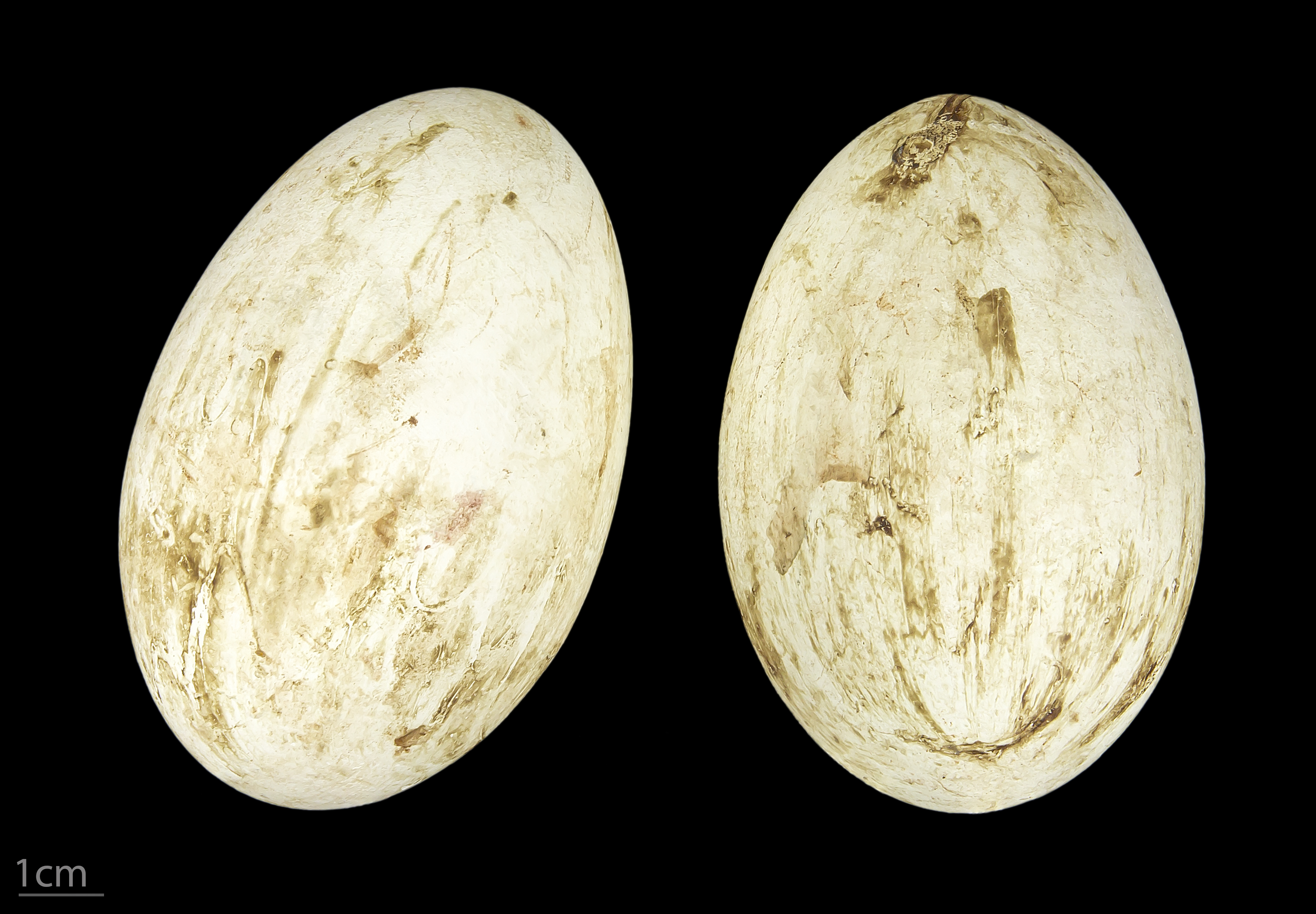 Egg of pink-backed pelican Collection of Jacques Perrin de Brichambaut.